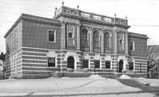 Public library, Massachusetts